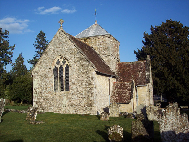 Church of All Saints, Fonthill Bishop The church has its origins in the 13th century with restoration carried out in 1879 by T H Wyatt. It is built of limestone rubble.